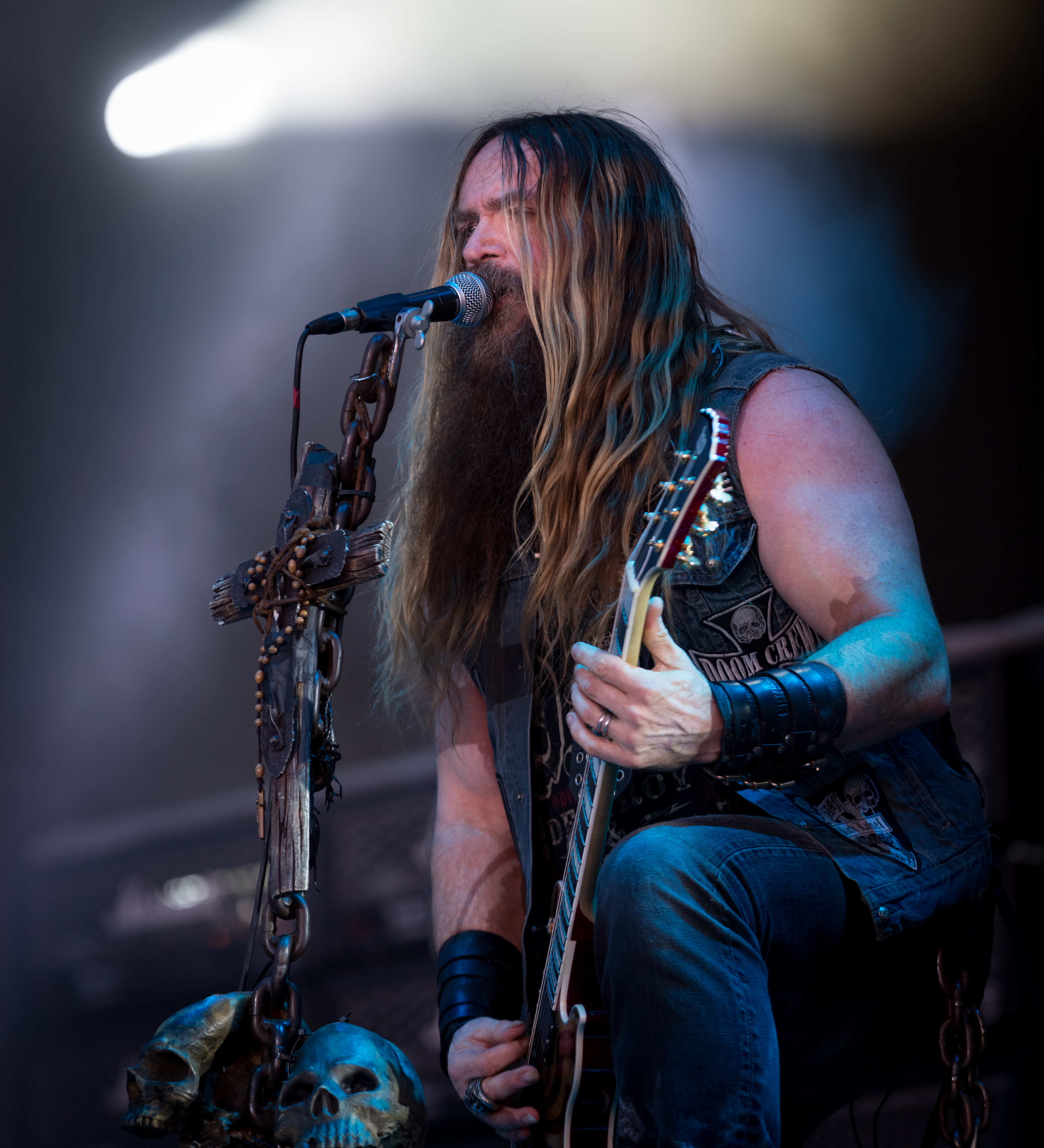 Black Label Society - Wacken Open Air 2015